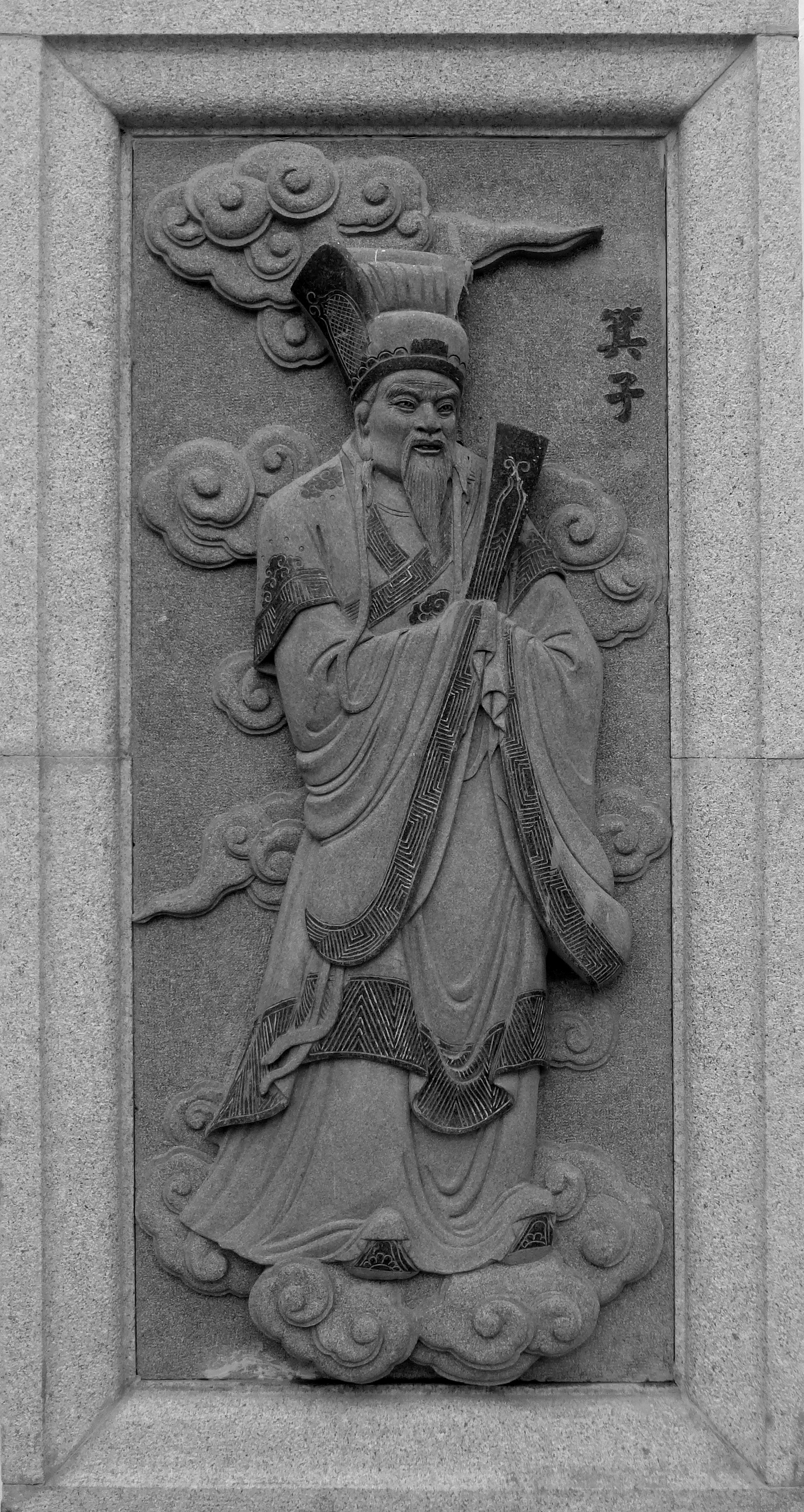 072 Ji Zi, Investiture of the Gods at Ping Sien Si, Pasir Panjang, Perak, Malaysia Photograph from the Ping Sien Si Temple in Perak, Malaysia taken by Anandajoti.